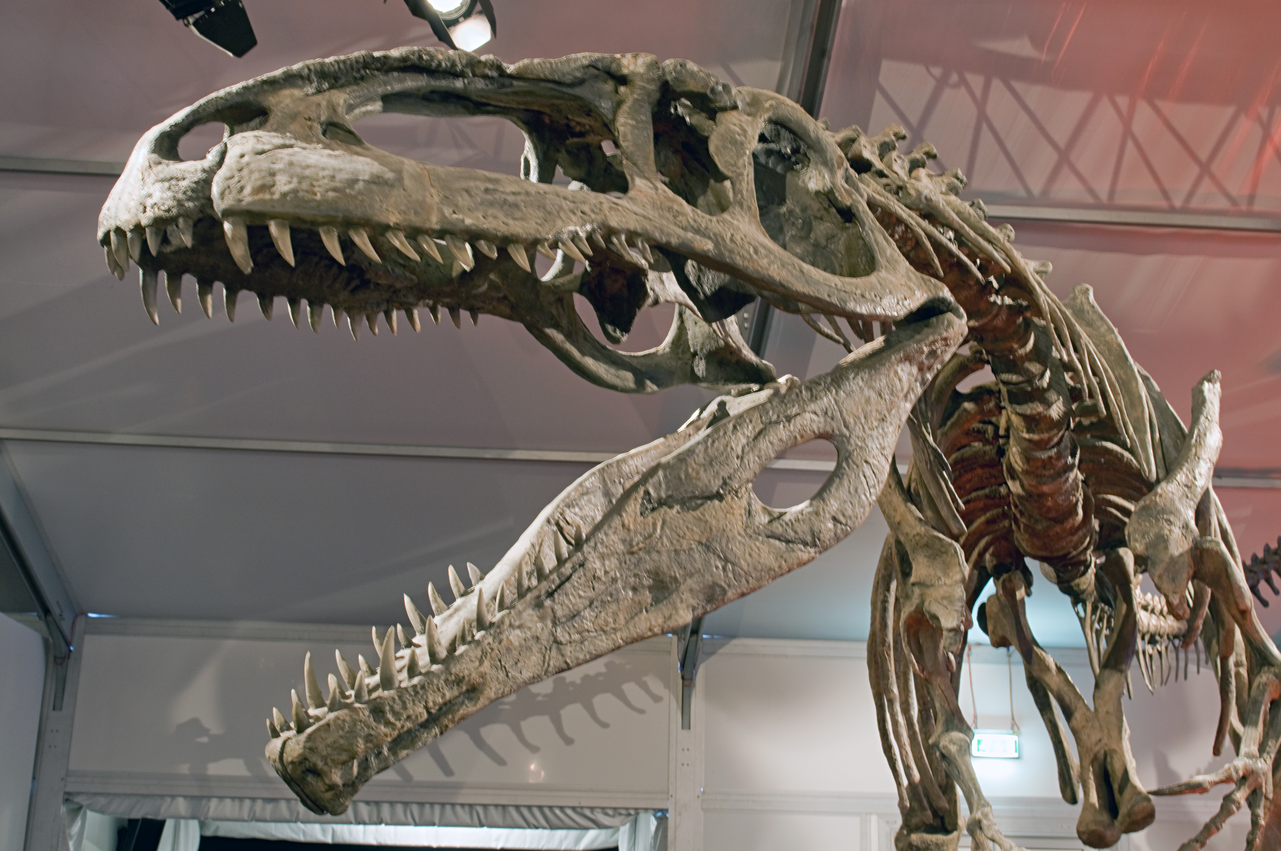 Skeleton replica of a Giganotosaurus carolinii